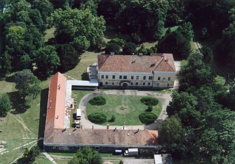 Csertő, castle, Hungary, aerial photography (Festetics Mansion)